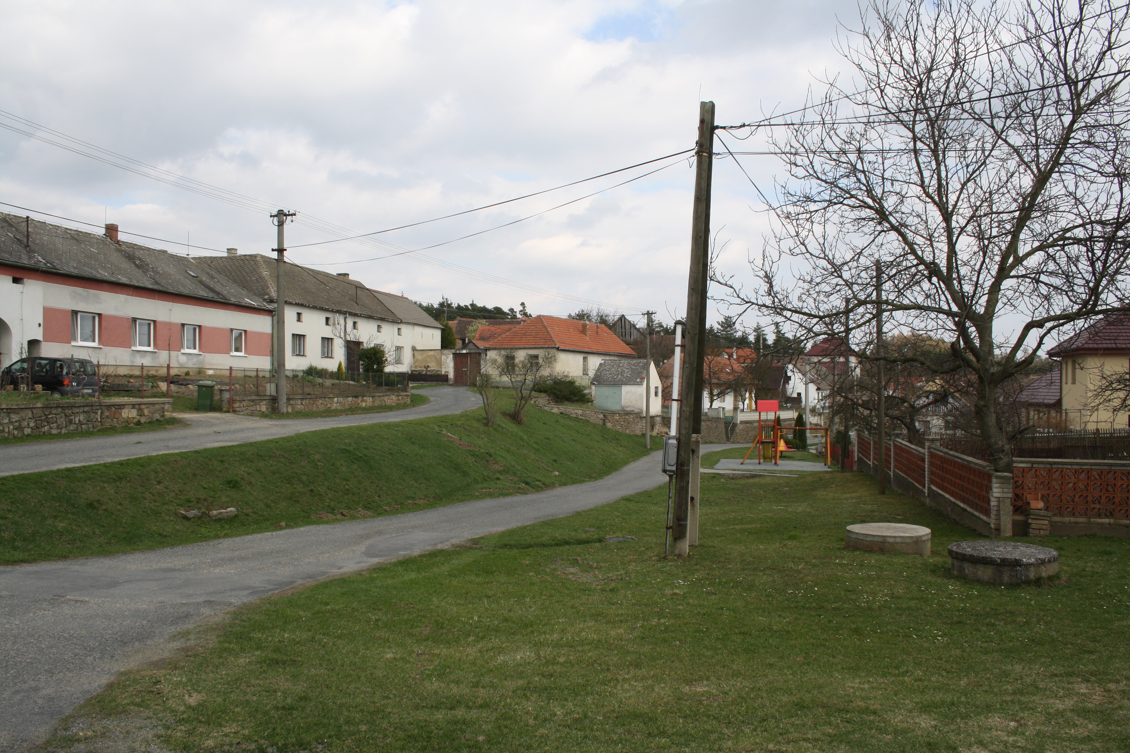 Center of Stropešín, Třebíč District.